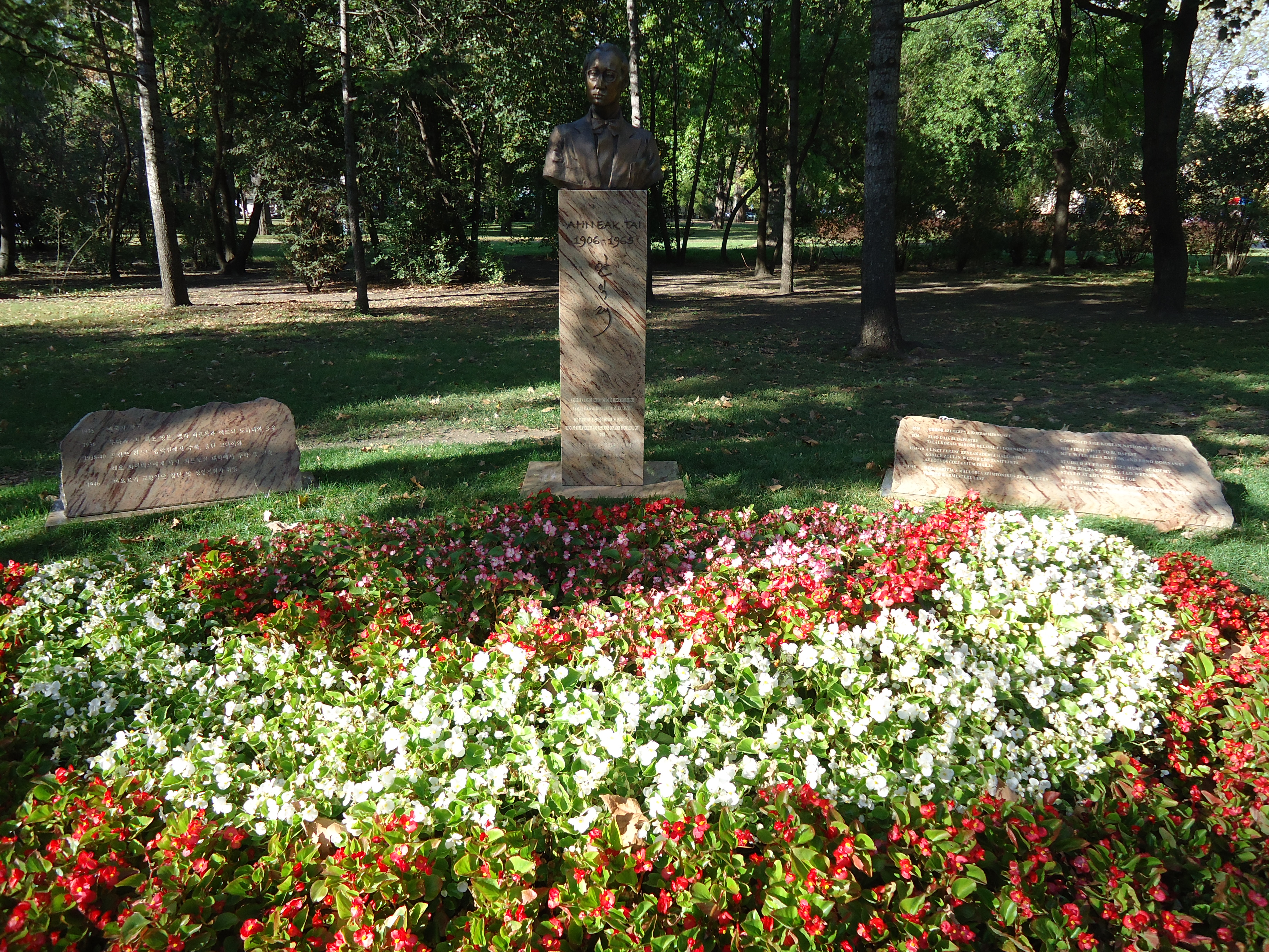 Városliget Ahn Eak Tai mellszobor (Zsin Judit, 2012, bronz.) - Budapest XIV. kerület, Városliget